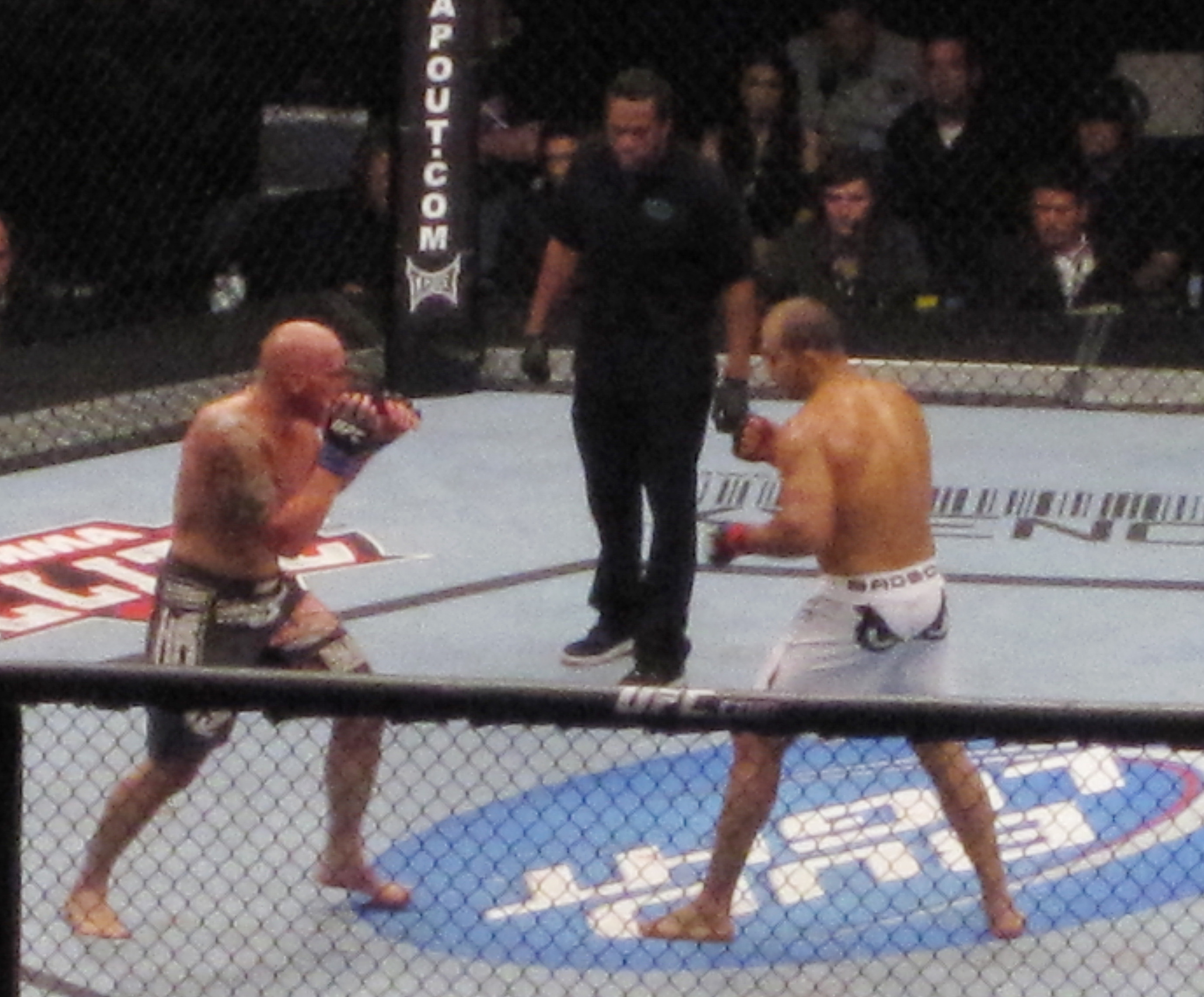 Picture of fighters Shane Carwin and Junior Dos Santos facing off at UFC 131 in Vancouver, Canada.